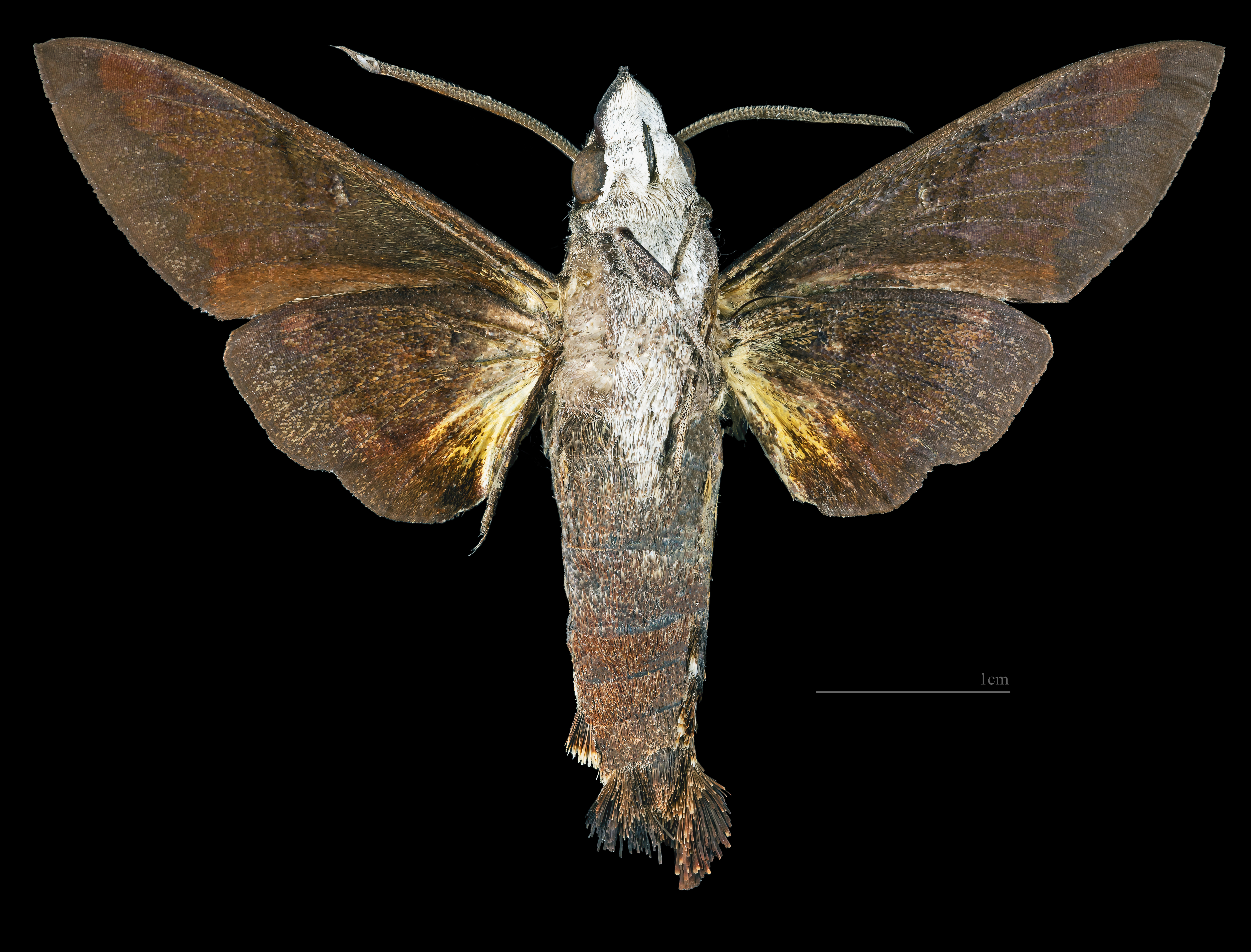 Macroglossum kitchingi - △ Ventral side Collection of the Mathematician Laurent Schwartz